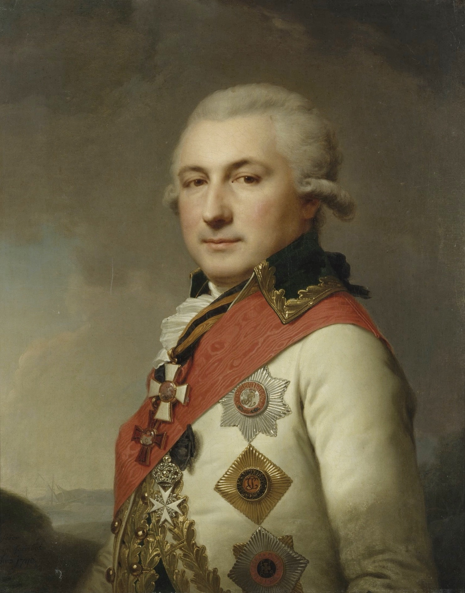 Johann Baptist von Lampi the Elder, Portrait of Don Osip Mikhailovich de Ribas, here Admiral and General-warcommissioner; oil paint on canvas; State Hermitage Museum; Sankt Petersburg.